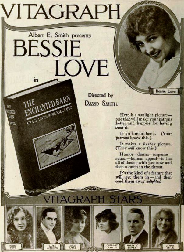 Ad for the American film The Enchanted Barn (1919) with Bessie Love, on page 408 of the January 25, 1919 Moving Picture World.